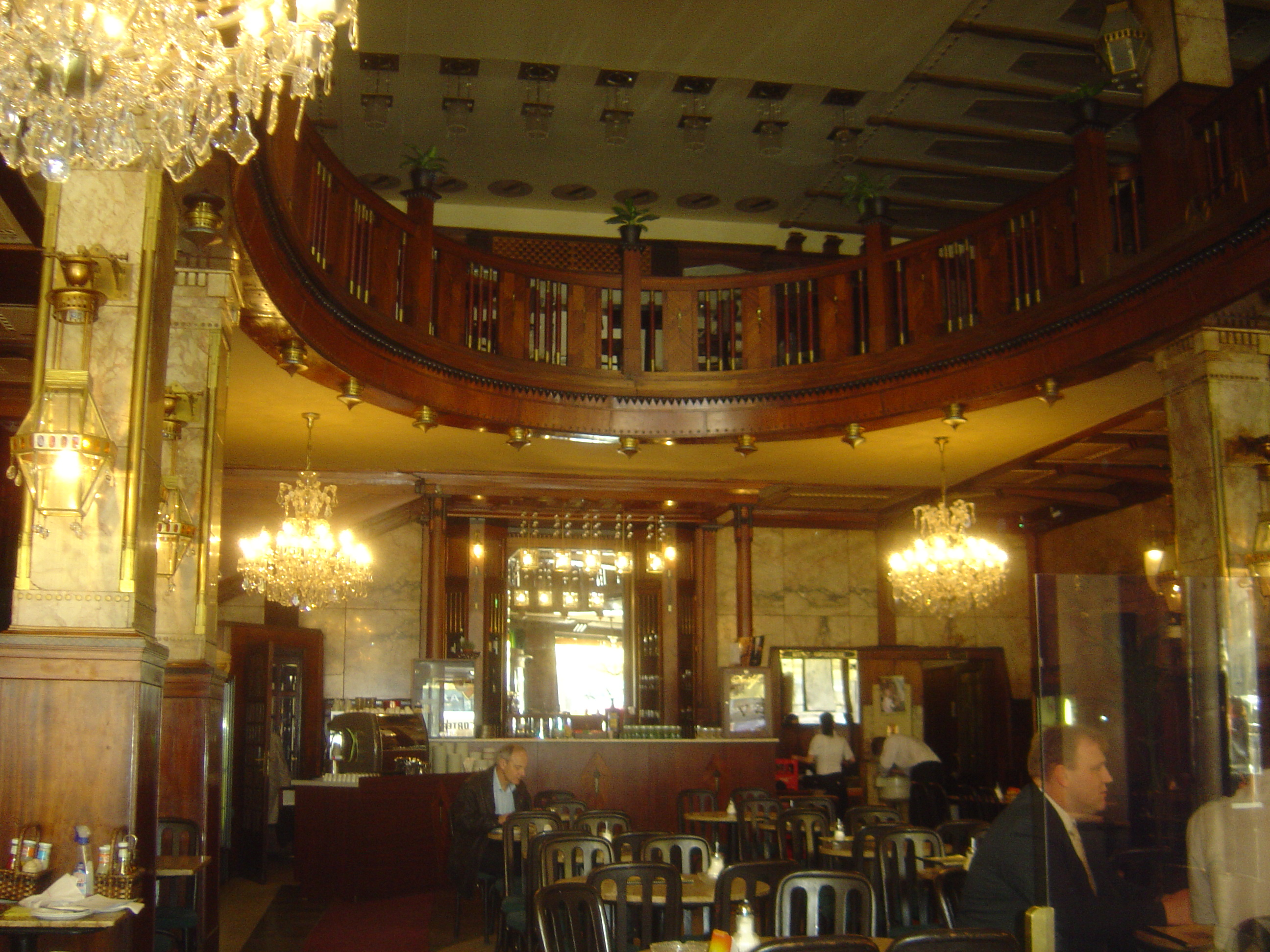 Cafe Evropa in Prague interior